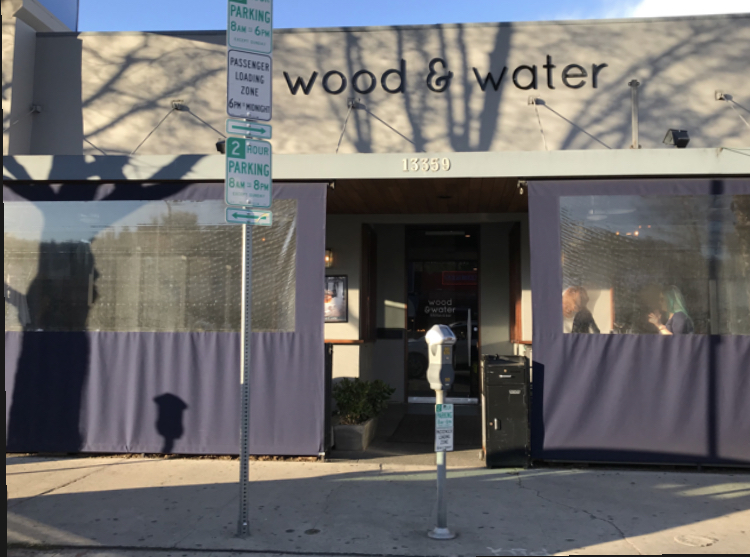 Jack Whalen death location at 13359 Ventura Blvd, Sherman Oaks, CA (shown in 2019)